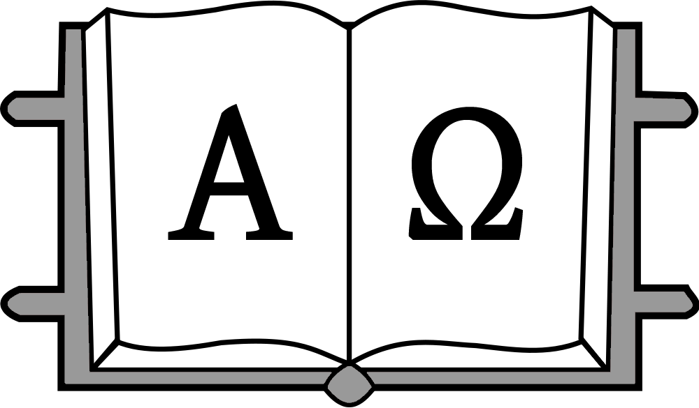 A book inscribed with the Greek letters alpha and omega.